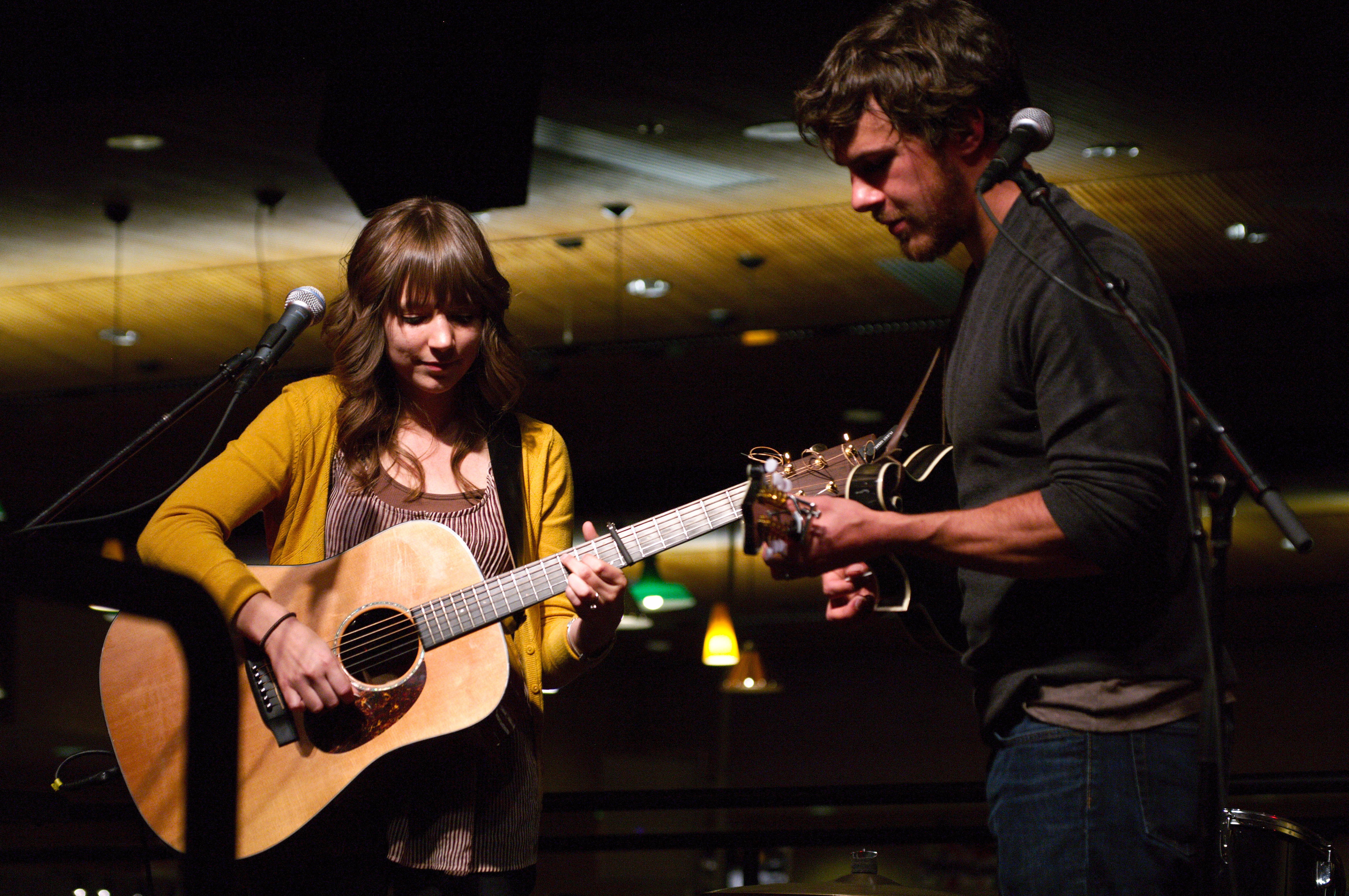 Jenny & Tyler performed at the University of Delaware's Scrounge Lounge.